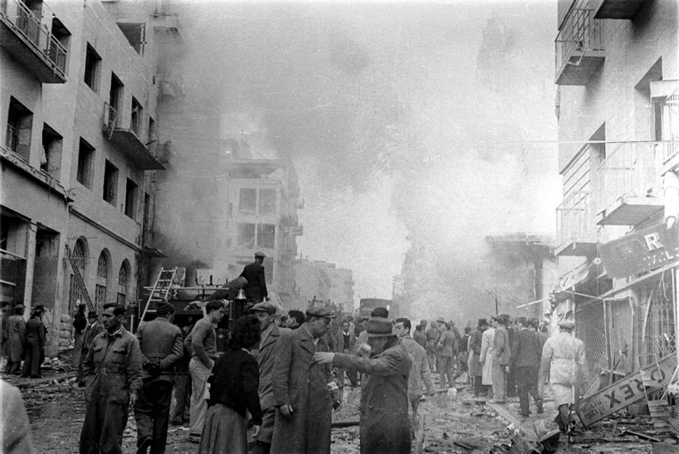 This shows the building destroyed by the car bombing in Ben Yehuda street at Jerusalem on Feb 22, 1948 during the Palestine War of 1948. This was organised by Hajj Amin al-Husseini's men. 52 Jewish civilians kild and 123 injured. See Ben Yehuda Street Bombing